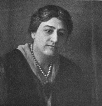 Katherine Philips Edson, from a 1921 publication.